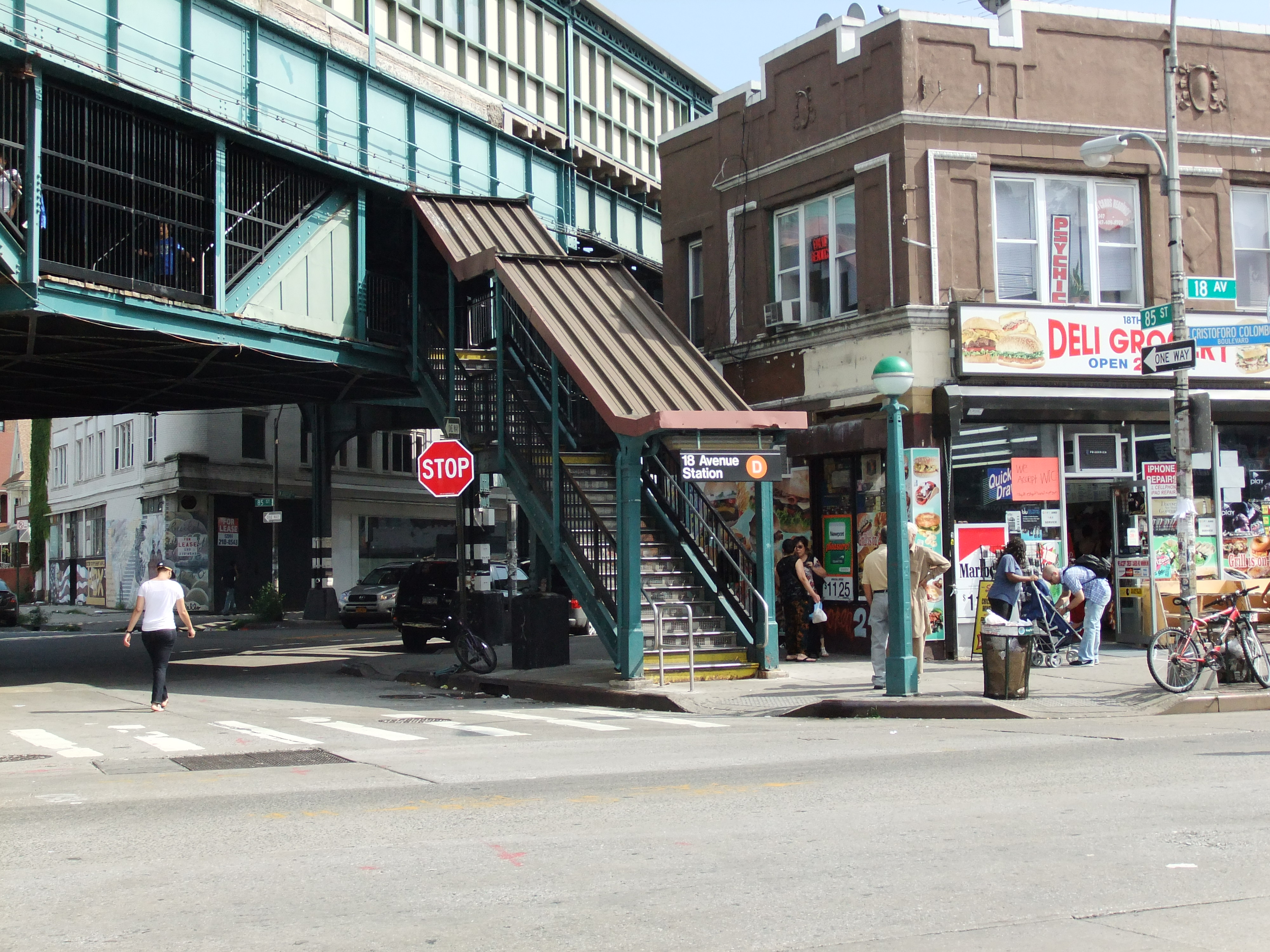 Stair at 18th and New Utrecht Avenue to the 18th Avenue (West End) station.